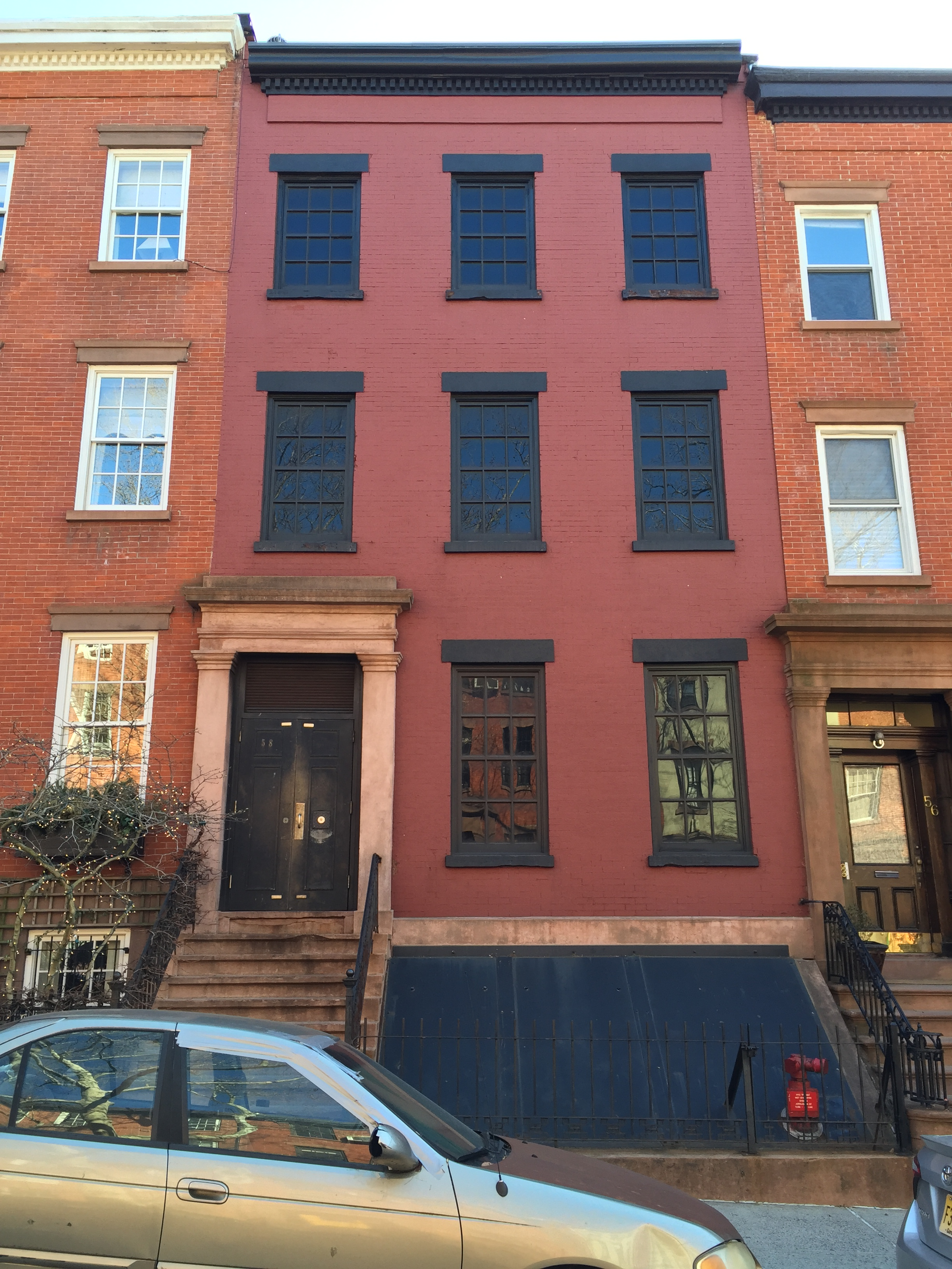 Showing the front of 58 Joralemon Street in Brooklyn Heights